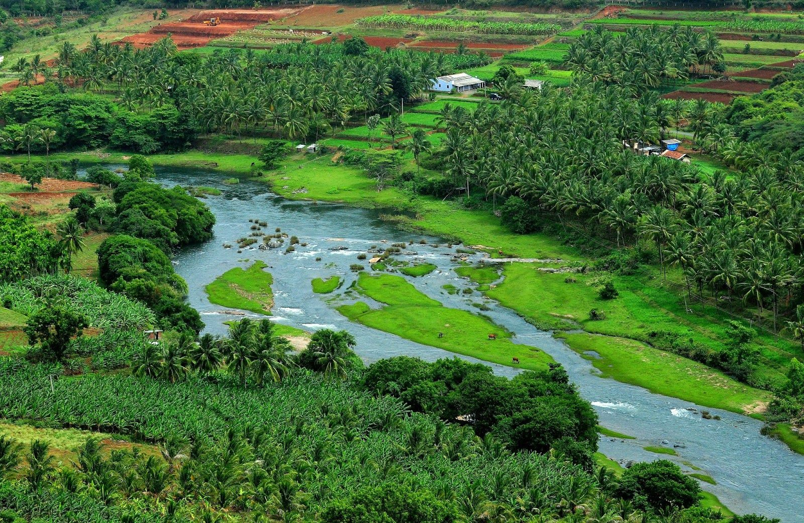 View of Bhavani Rever Near Manchikkandi Thavalam Mulli Ooty Road